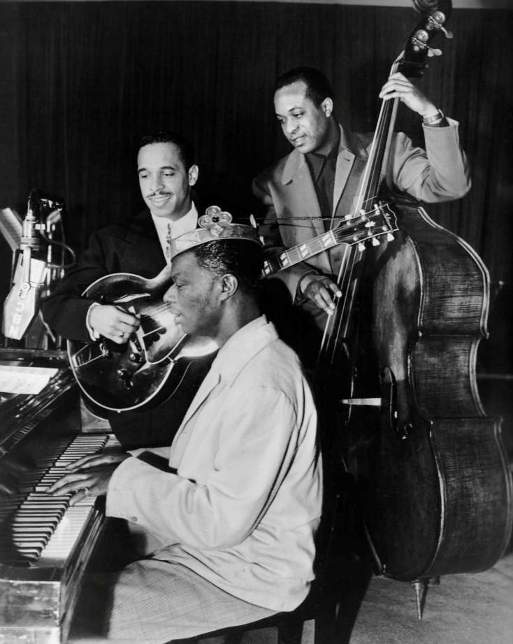 Photo of the Nat King Cole Trio from the radio program King Cole Trio Time. Nat King Cole at the piano, Oscar Moore on guitar, and Johnny Miller on bass. The program aired on NBC Radio.